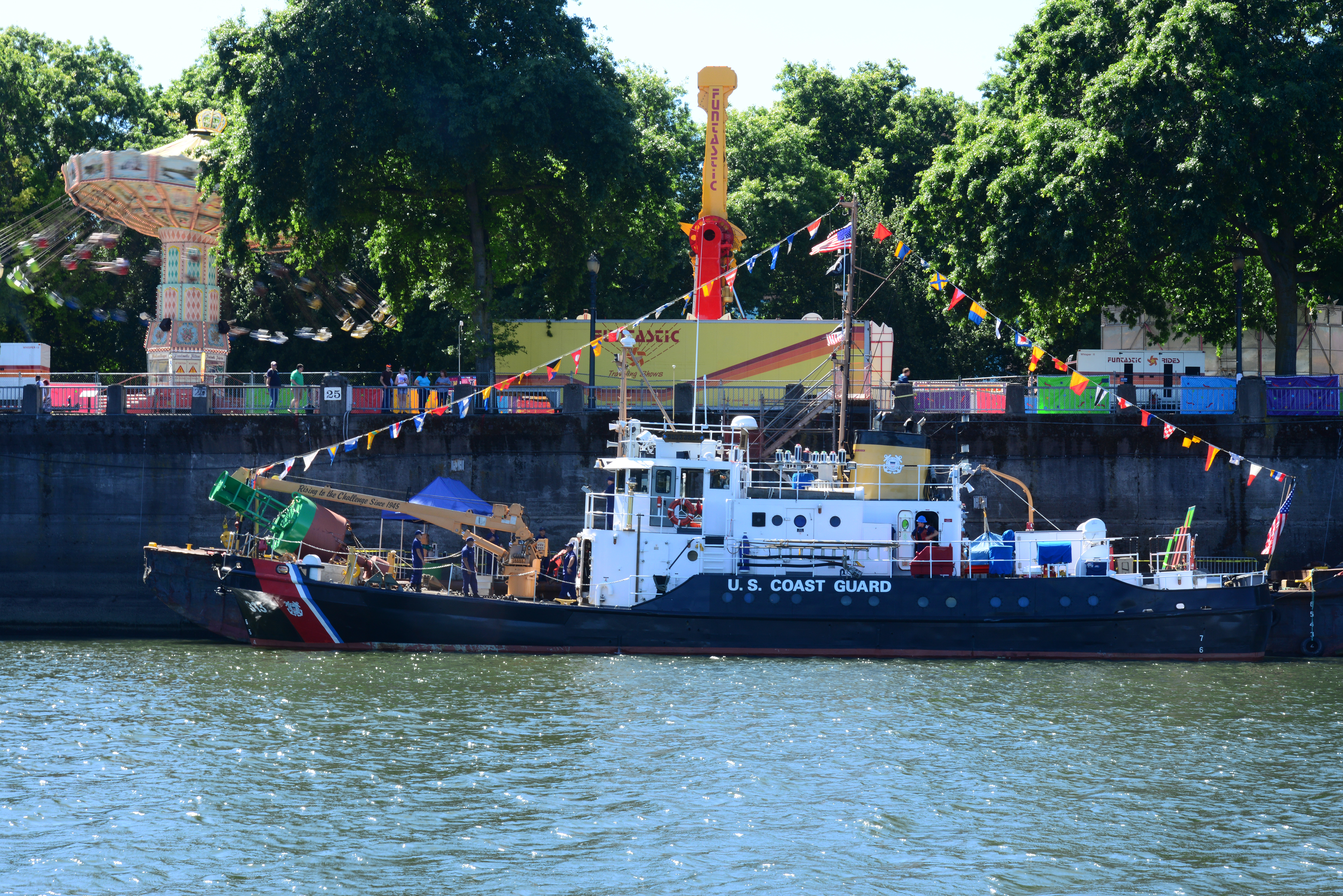 The Coast Guard Cutter Bluebell sits moored on the Willamette River waterfront in Portland, Ore., June 4, 2015. The Bluebell, which celebrated her 70th anniversary this year, is one of many ships participating in the 100th year of the Portland Rose Festival. (U.S. Coast Guard photo by Chief Petty Officer David Mosley.)